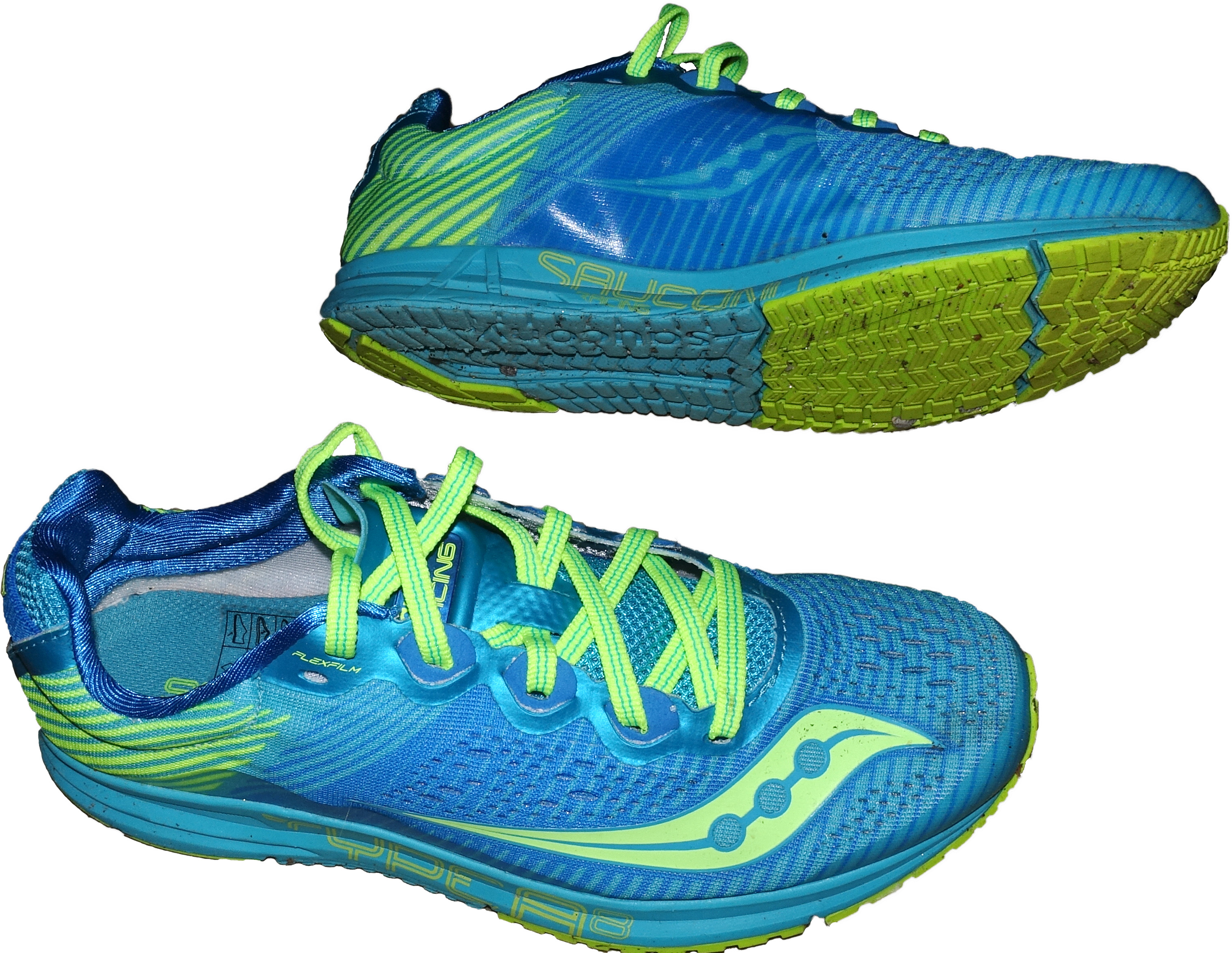 Saucony Type A8 running shoes.